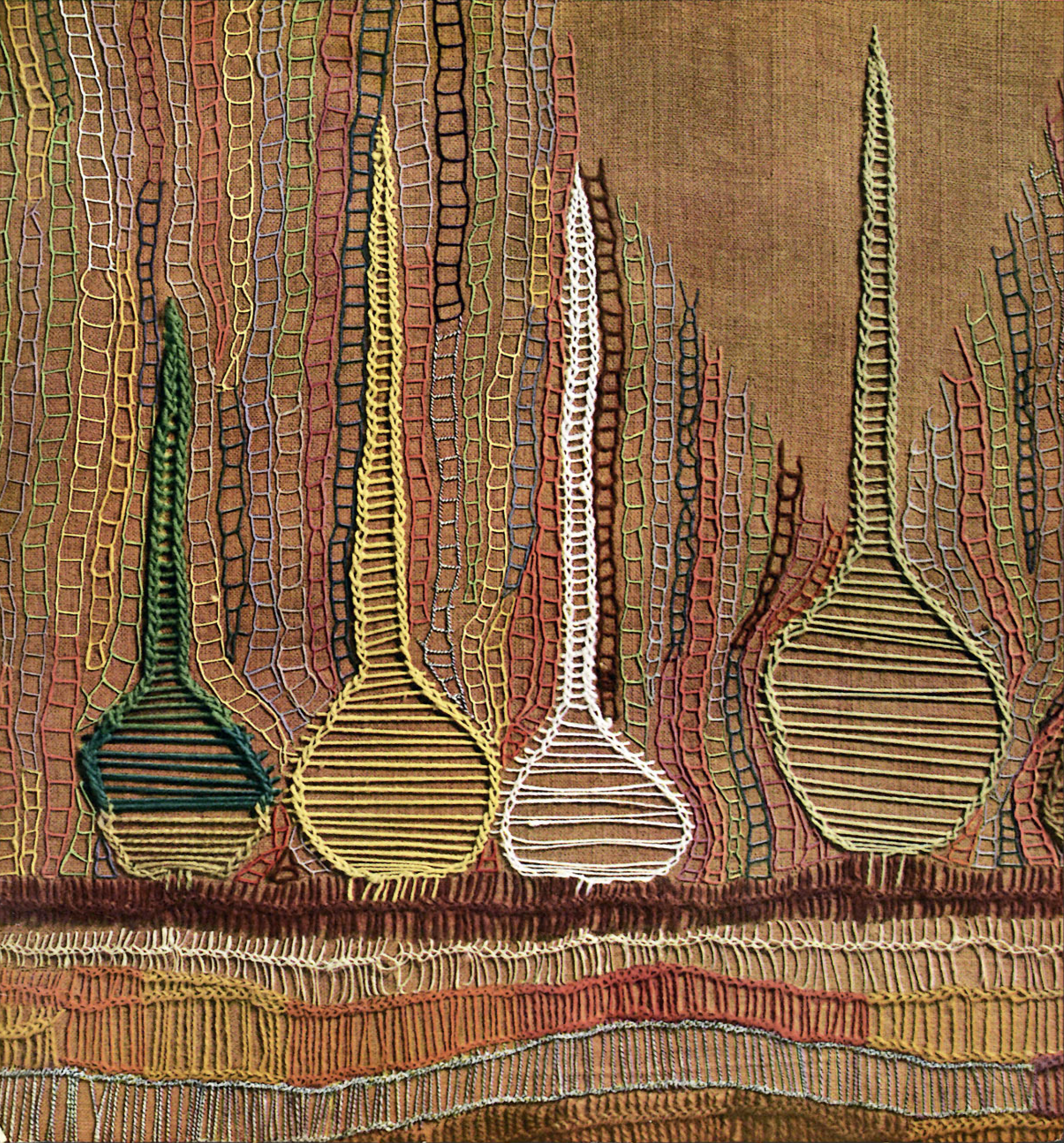 Detail of Alchemy, wall panel by Mariska Karasz, as it appears on the front cover of Craft Horizons. Description on page 3 reads as follows: Alchemy—half of wall panel by Mariska Karasz, artist and author of Adventures in Stitches. Flasks on a background of tawny yellows, vivid greens, reds express Miss Karasz' new abstract trend. Executed on finely textured silk from a worn but treasured Chinese kimono with strong, delicate yarns of Pola Stout's.